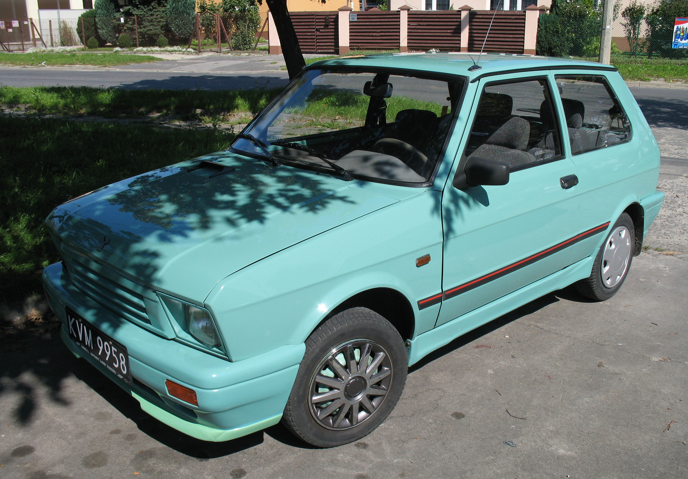 Zastava Yugo Koral 1.1i car in Kraków, Poland.